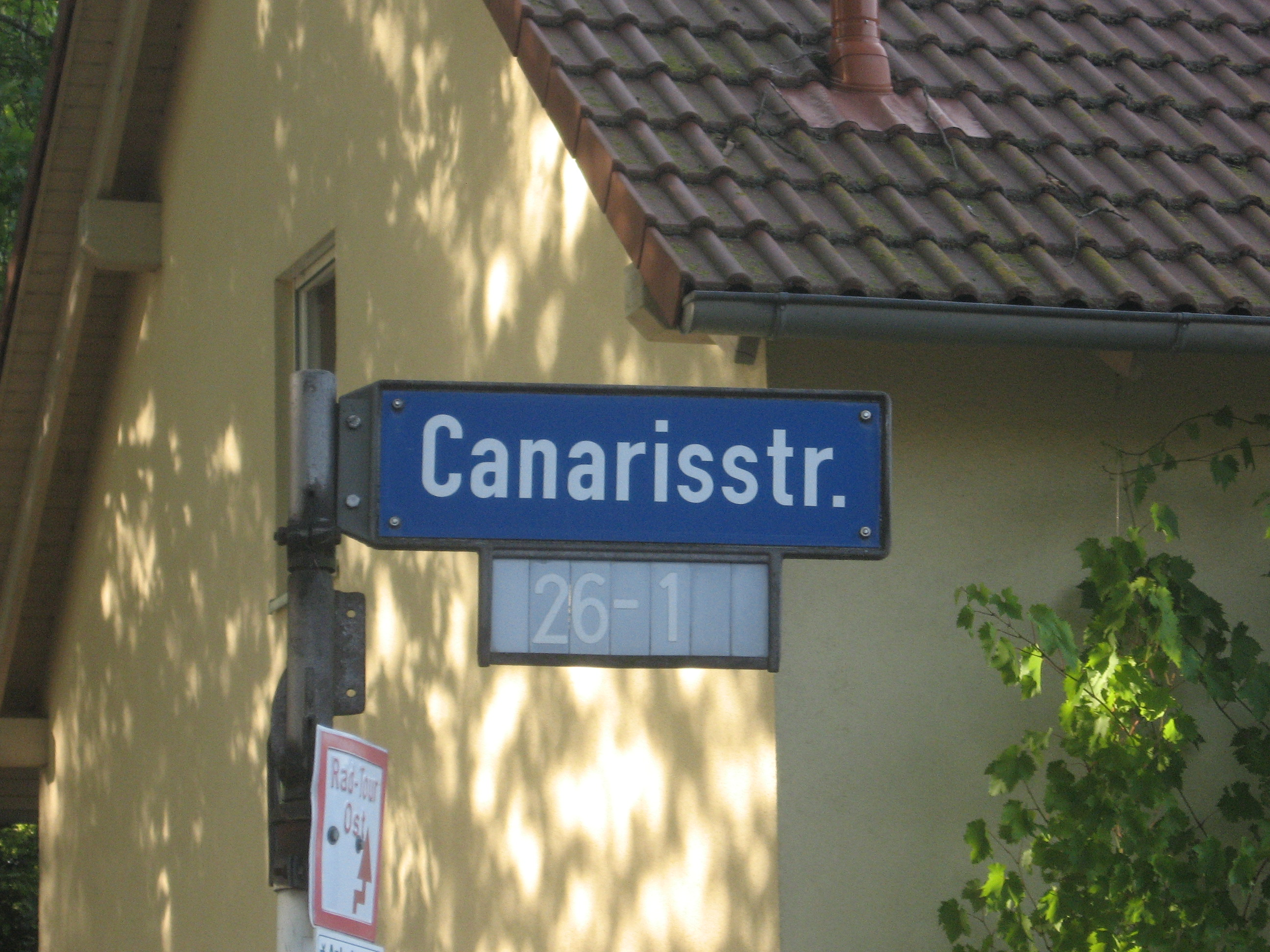 Road sign of the Canarisstraße (Canarisstreet) in Dortmund-Aplerbeck